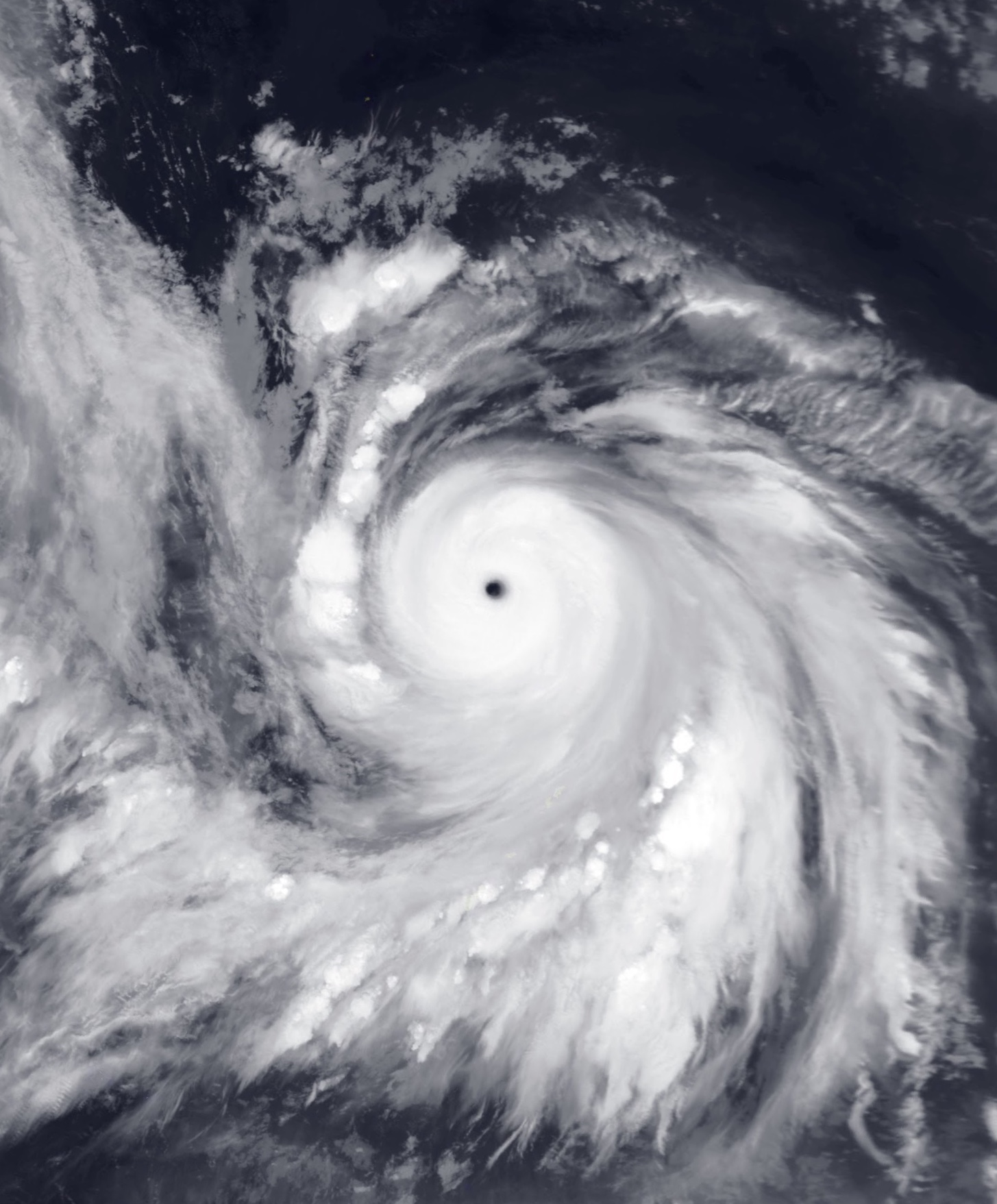 Typhoon Nangka at peak intensity on July 9